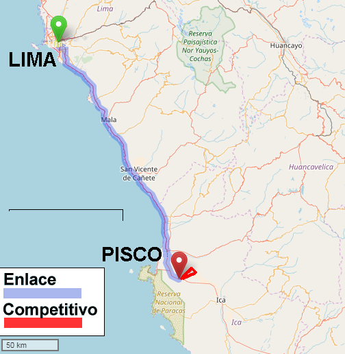 Dakar Rally 2018. Stage 1. Lima-Pisco. Perú. This map of Perú was created from OpenStreetMap project data, collected by the community. This map may be incomplete, and may contain errors. Don't rely solely on it for navigation.